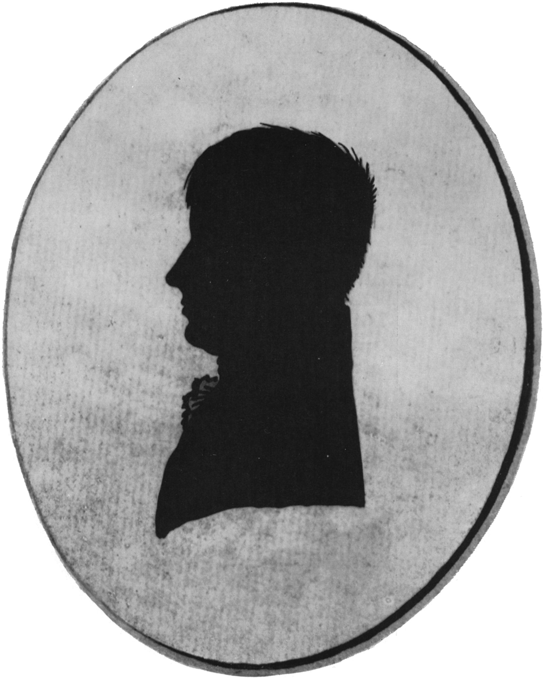 Silhouette of Friedrich Hölderlin